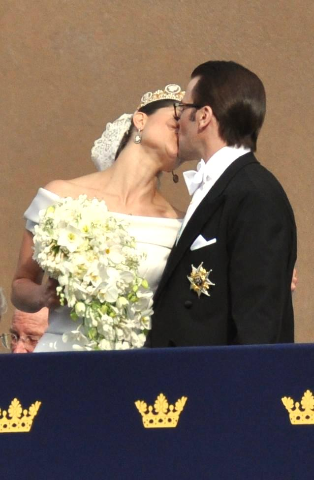 Wedding of Victoria, Crown Princess of Sweden, and Daniel Westling; The Couple at Lejonbacken